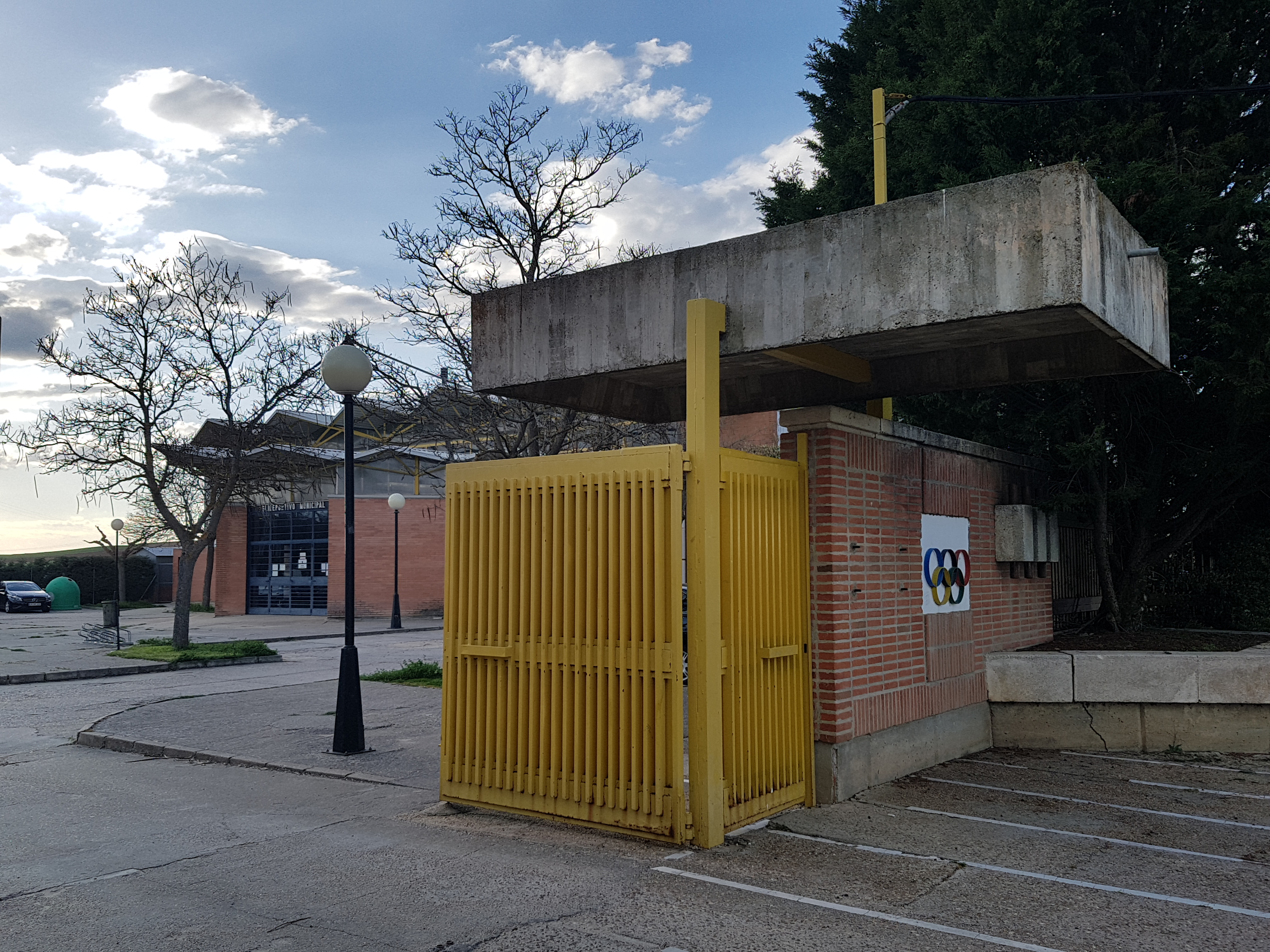 Sports center in Nava del Rey village